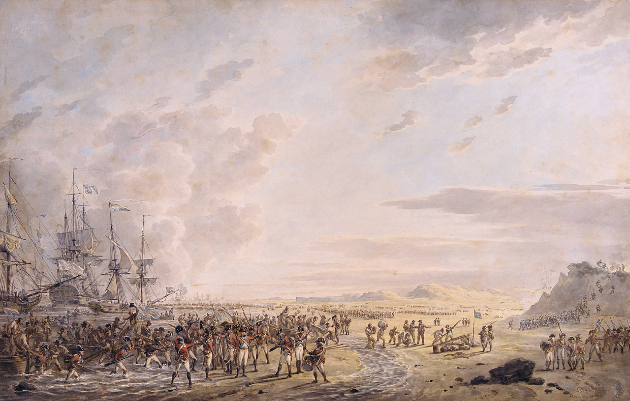 Landing of English troops at Calantsoog, North Holland on 27 August, 1799. inscribed: ad vivem 1799 size: 24 x 37.8 cm